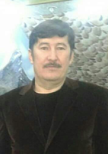 cropped version of File:Meeting with Mr. Saadati.jpg